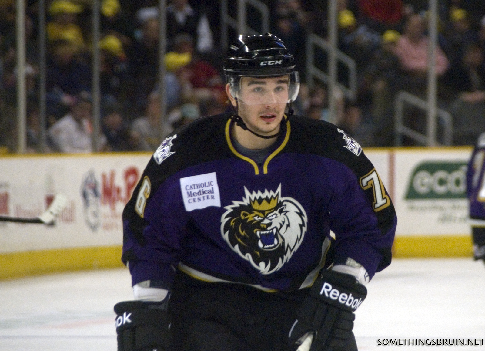 ERI_4091 Manchester Monarchs versus Providence Bruins. American Hockey League (AHL). Taken by Sarah Connors on January 23, 2011 using a Nikon D200. This photo also appears in Sarah Connors' Flickr set "Manchester @ Providence, 1/23/11" (Set of 98).